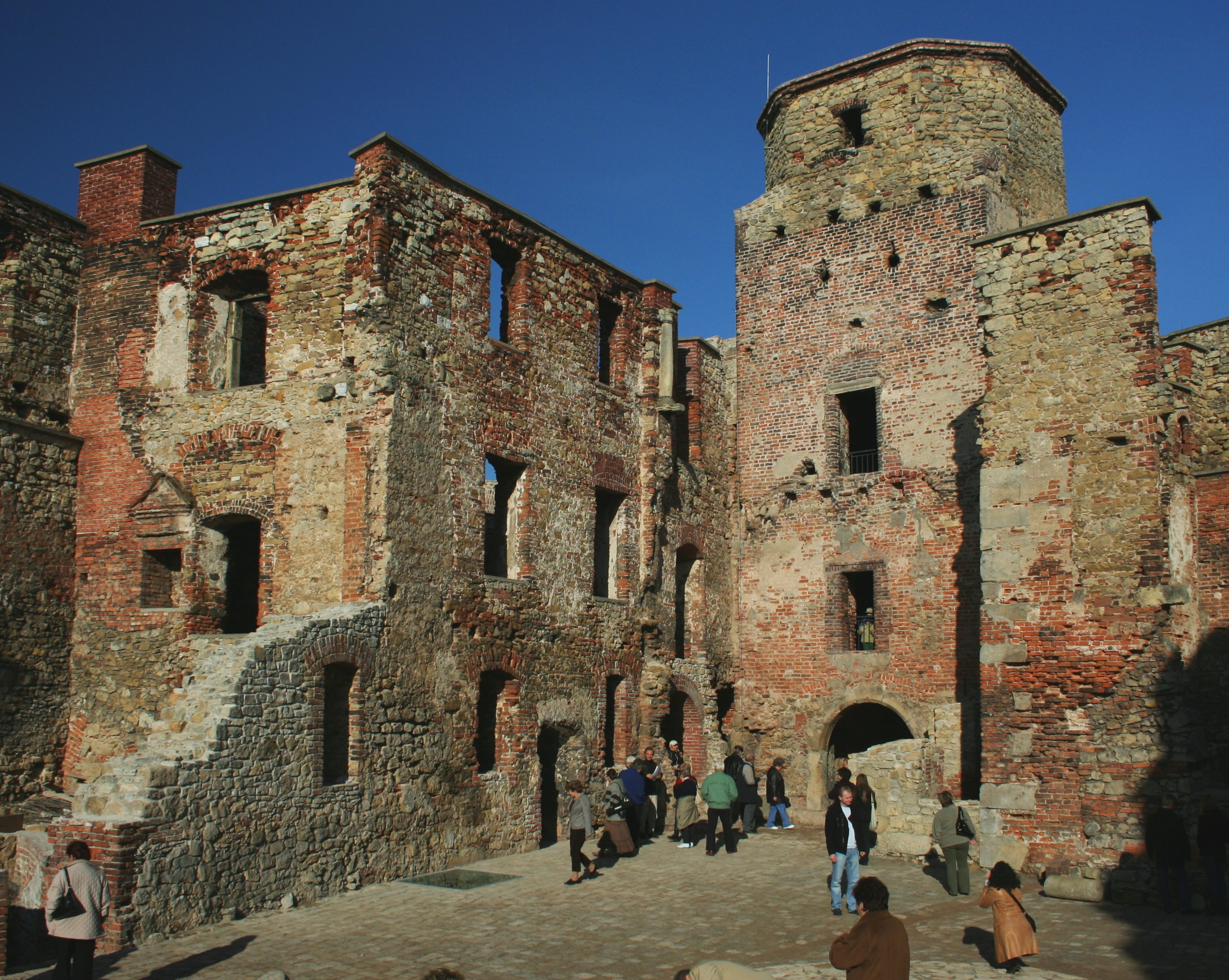 Castle in Siewierz, Poland